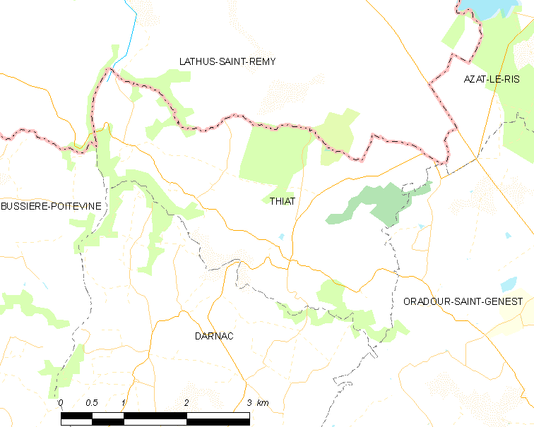 Map of French municipality Thiat